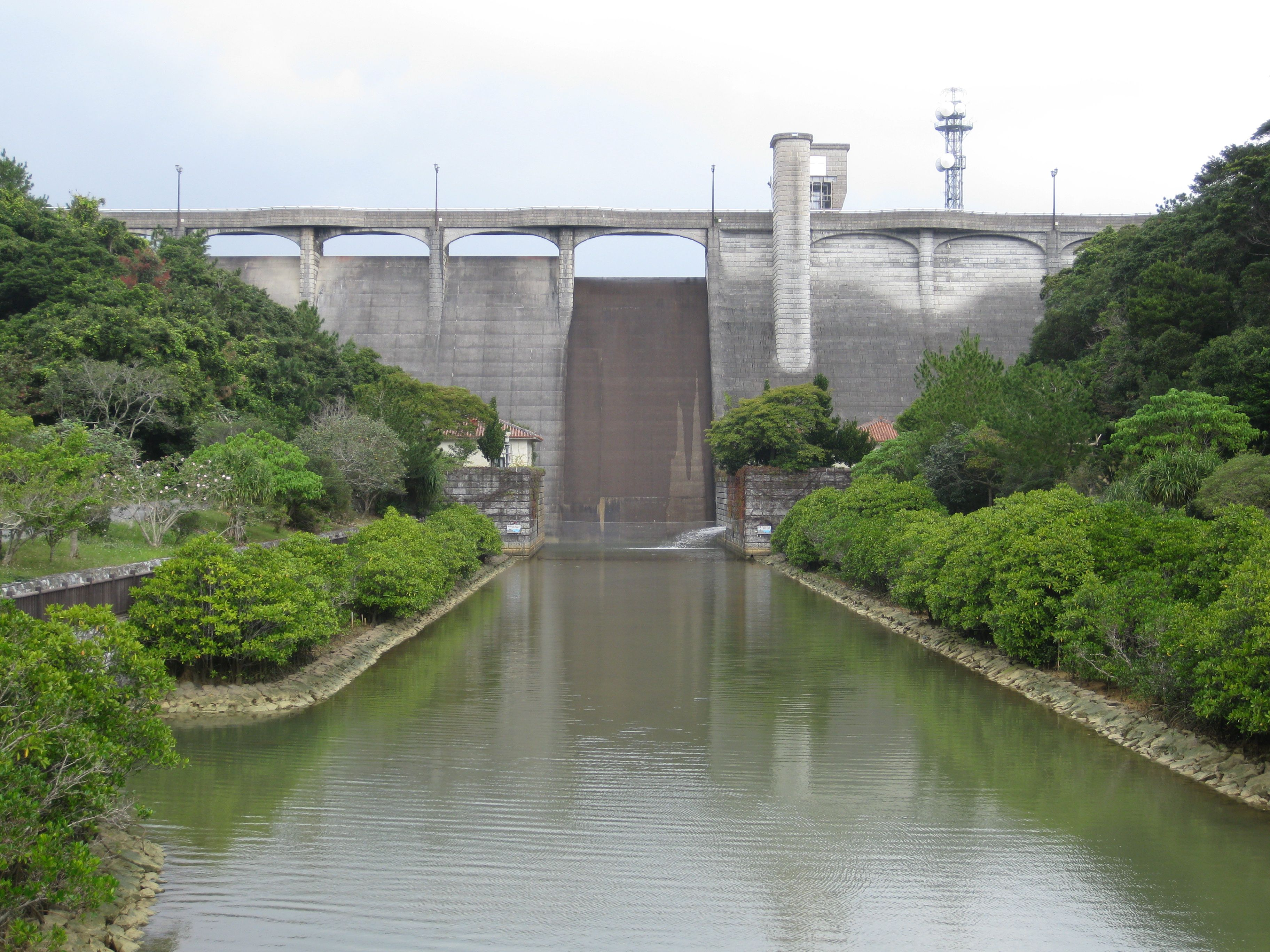 Kanna Main Dam in Okinawa, Japan